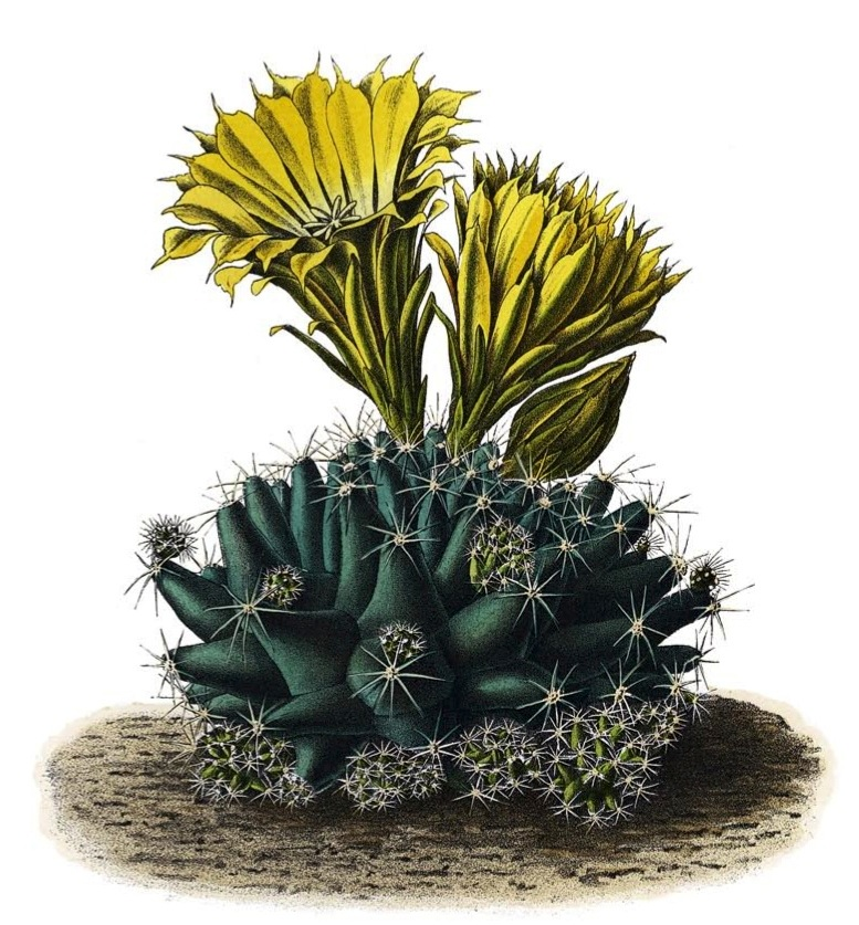 Escobaria missouriensis ssp. missouriensis